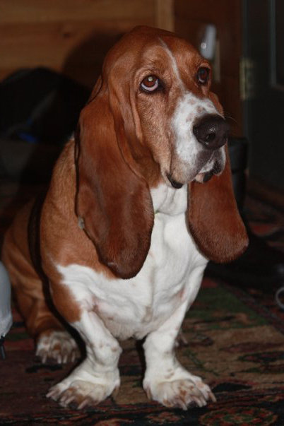 6-year old tri color basset